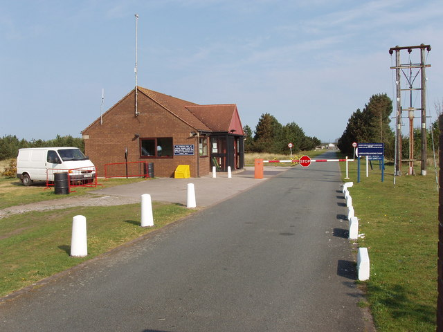 Altcar Training Camp entrance The camp includes rifle ranges. "The facilities at the Altcar training camp play an important role in meeting the training needs of the Regular forces, reserves, and cadets from all three services", said the Ministry of Defence in parliament in 2001. It is also used for commercial team building and performance development events. Photo from public footpath which runs from here north beside the railway.